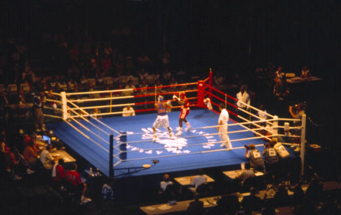 Crowd scene. U.S. boxer in blue is Antonio Tarver